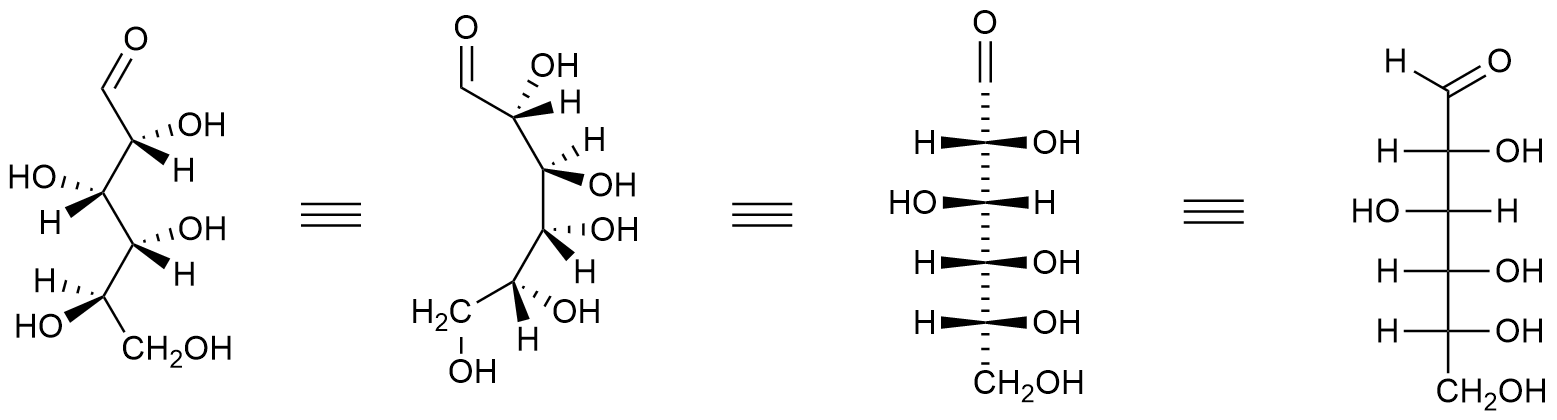 Projection of D-glucose to Fischer projection.